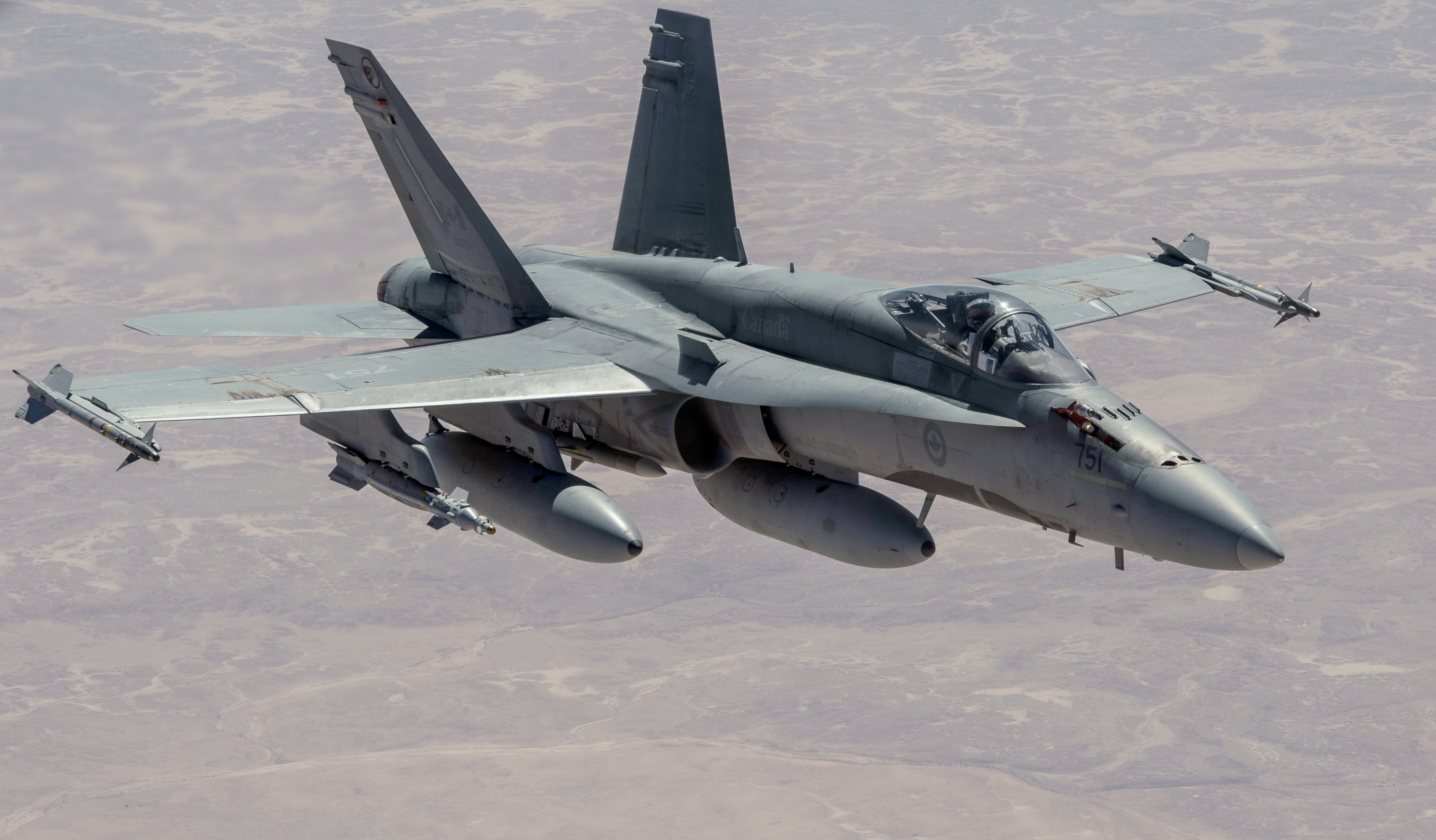 Royal Canadian Air Force CF-188 Hornet flies next to U.S. Air Force KC-135 Stratotanker assigned to the 340th Expeditionary Air Refueling Squadron, while his wingman refuels, March 4, 2015, over Iraq. The Hornets are striking Da'esh targets in support of Operation Inherent Resolve. (U.S. Air Force photo by Staff Sgt. Perry Aston/RELEASED)